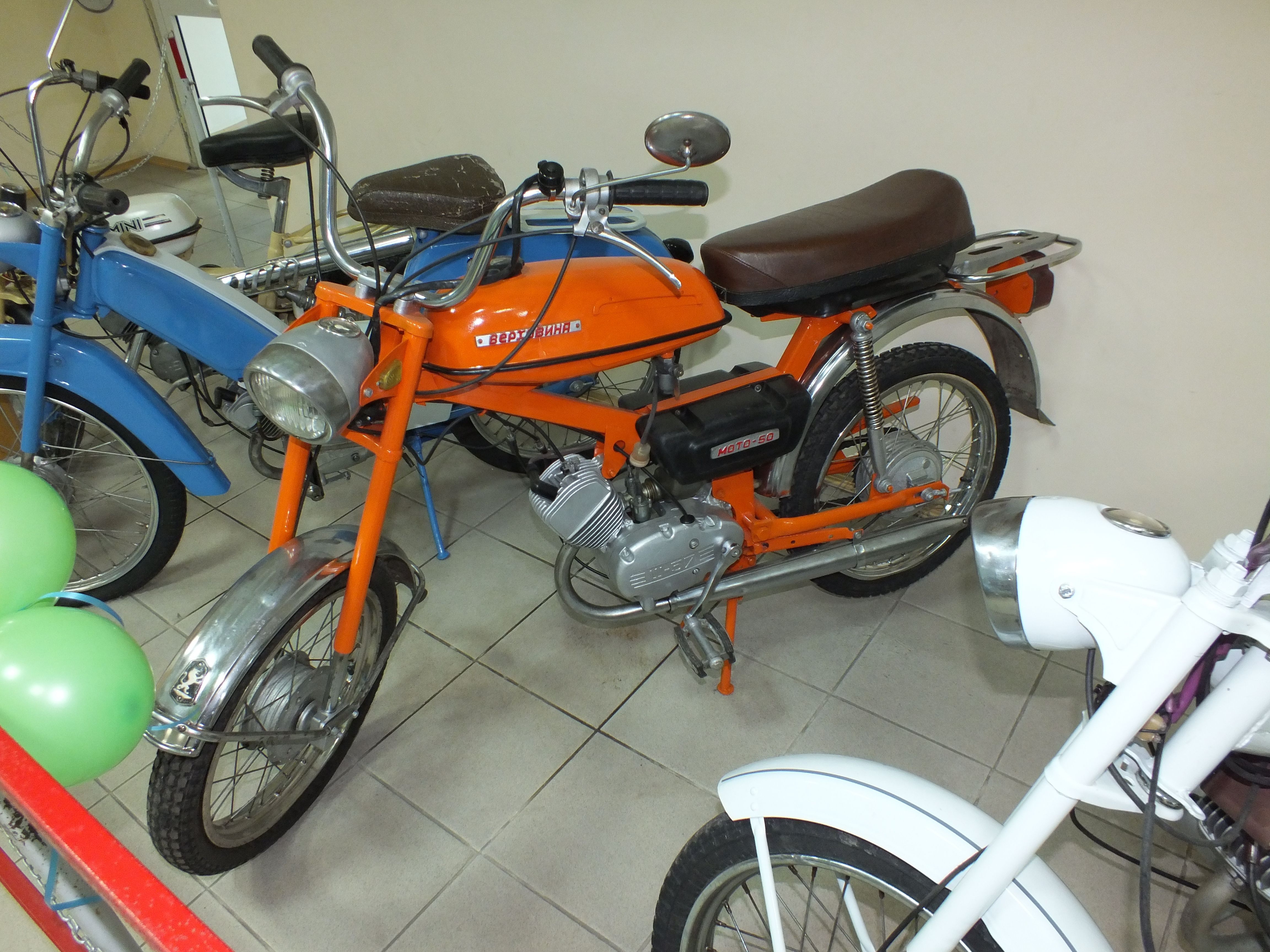 Motorcycles of Soviet Union